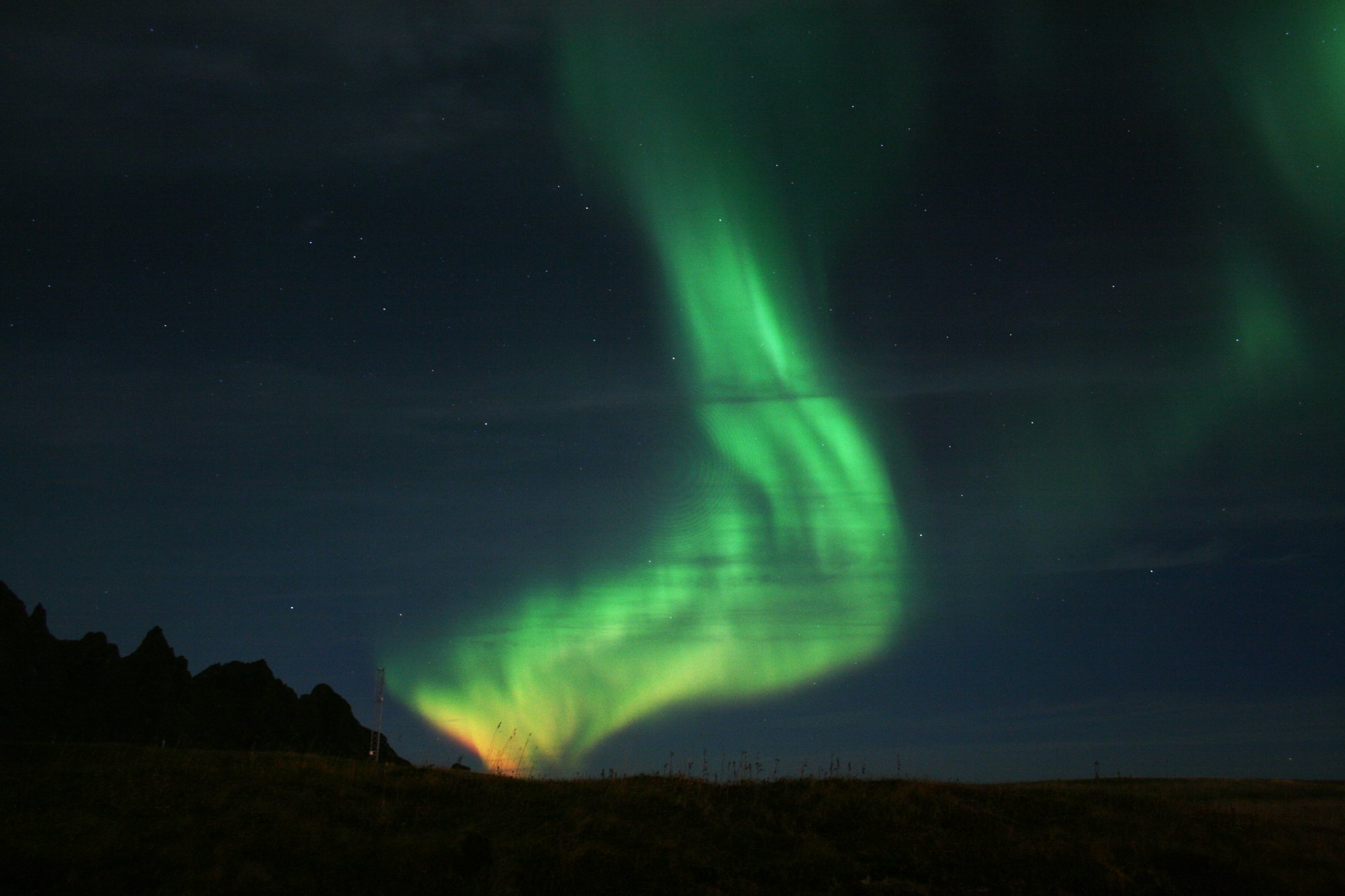 Polar light on Andøya, Norway